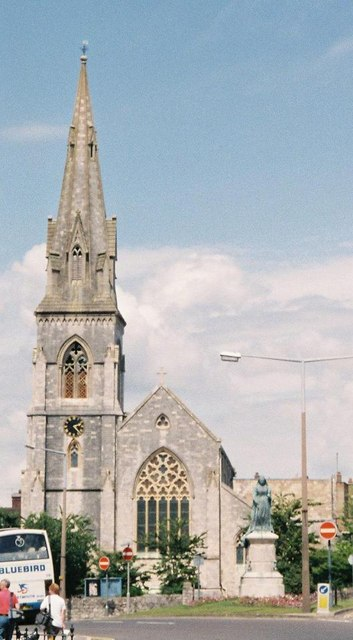 Parish church of St John the Evangelist, Dorchester Road, Melcombe Regis, Weymouth, Dorset, seen from the south